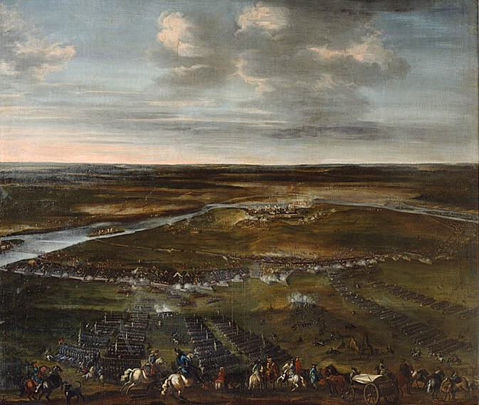 Battle of Narva 1700, painting made by Daniel Stawert